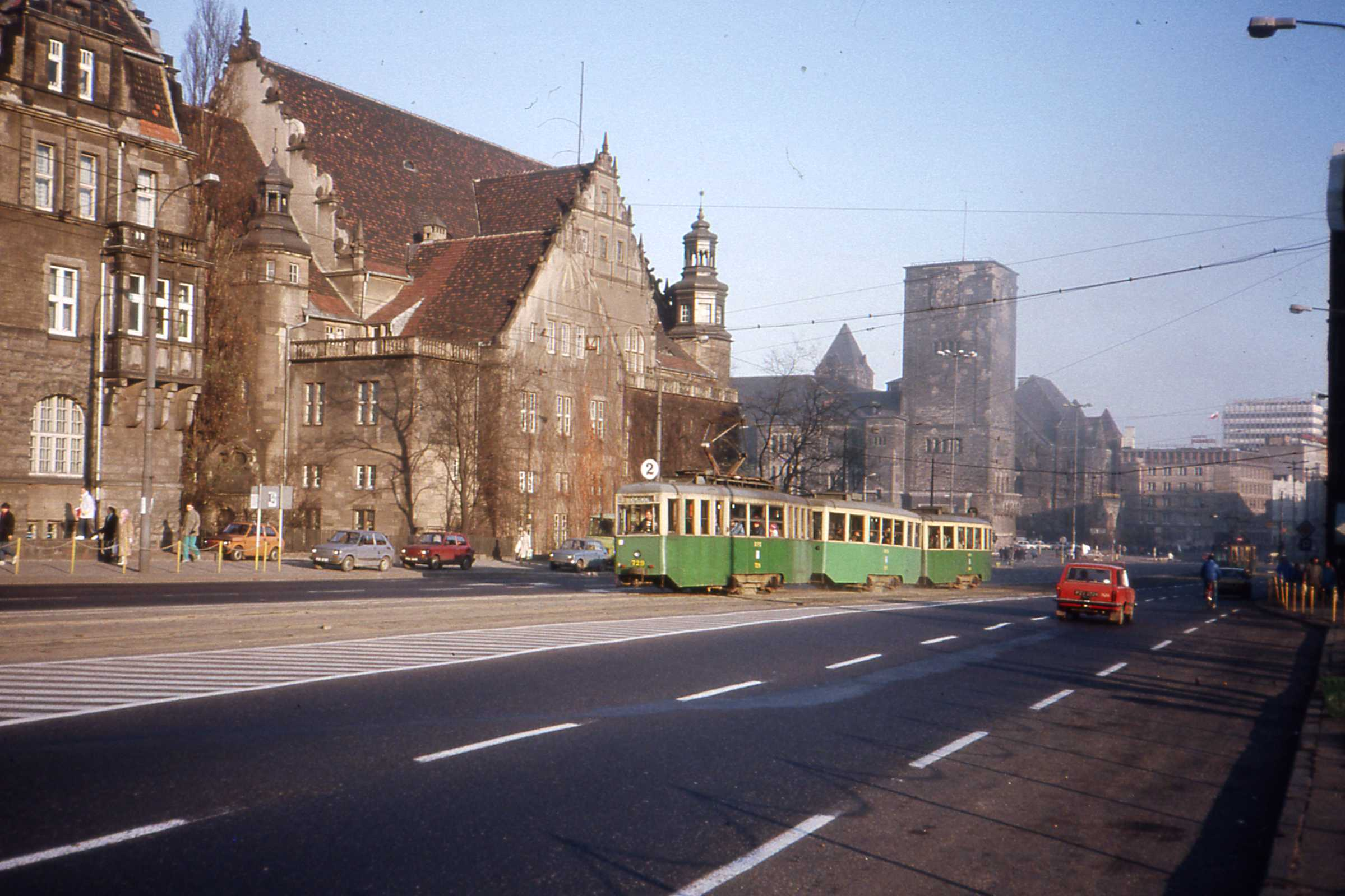 A street in Poznań with a three trams set led by motor no 729. On the left there are four Polski Fiat 126p automobiles and on the right there is a Polski Fiat 125p Kombi or an FSO 125p Kombi.